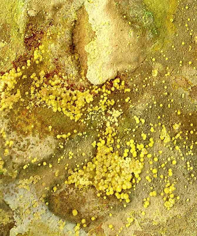 Umohoite, Calcurmolite Locality: Rabejac, Lodève, Hérault, Languedoc-Roussillon, France (Locality at ) Size: 12.5 x 8.6 x 3.3 cm. A significant specimen from a major French find of some years back, generally considered to have produced the finest specimens of the species (I am told). Both species here are extremely rare and this is the first I have had of either one. This large plate features a very large deposit of umohoite in rich concentration on the top of the specimen. Hundreds of crystal clusters of Calcurmolite surround it. From the prominent radioactive mineral collection of Alain Caubel, of France.